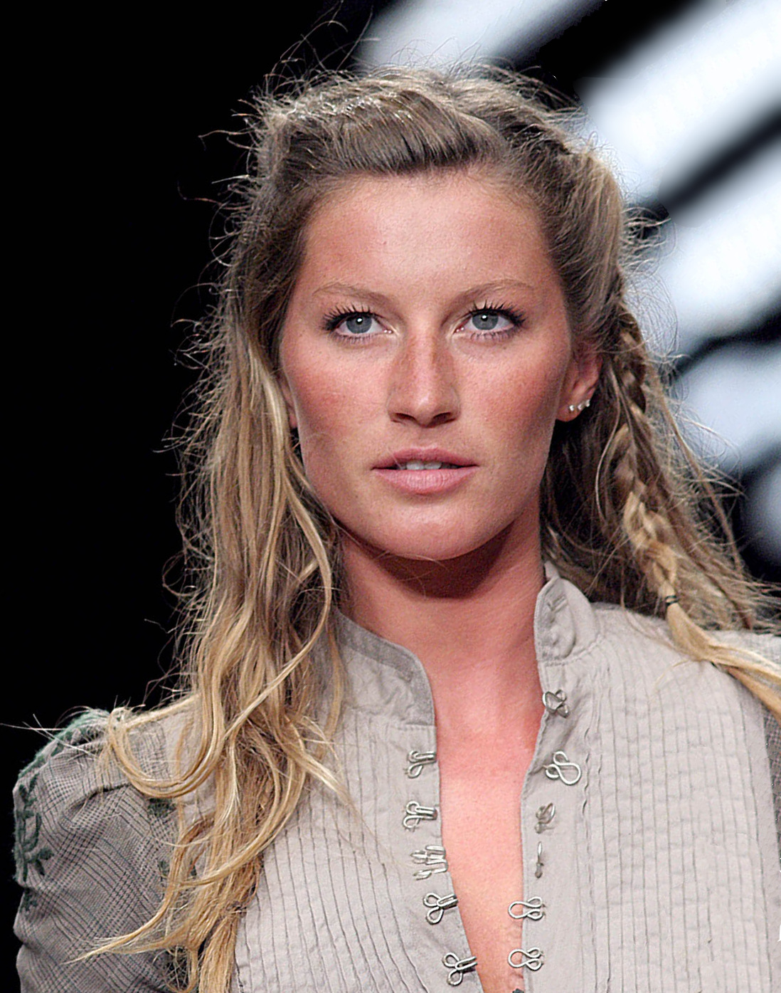 Brazillian model Gisele Bündchen at the Fashion Rio Inverno 2006. depicted person: Gisele Bündchen (age: 25)